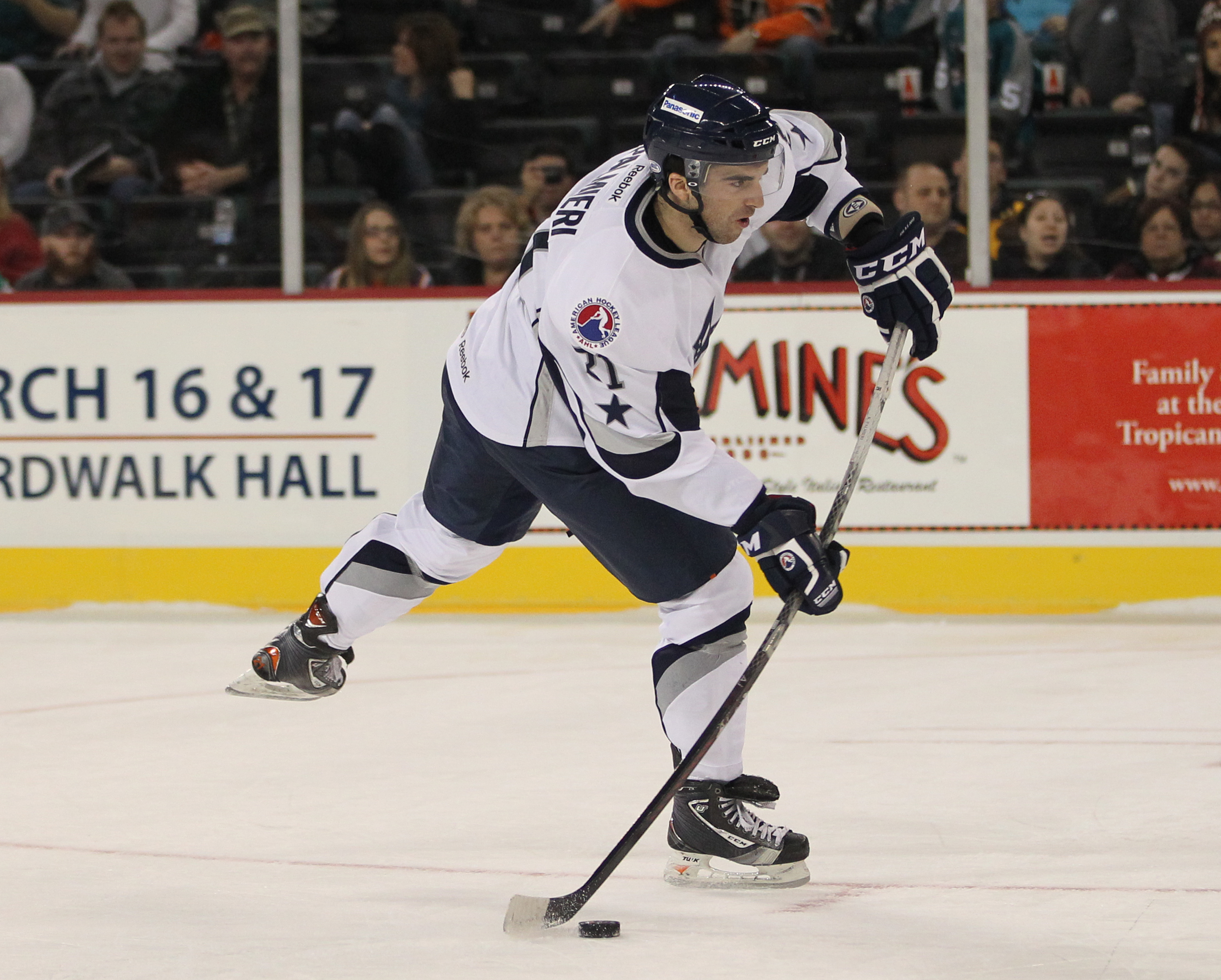 Kyle Palmieri, American ice hockey player